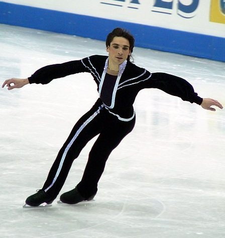 Roman Serov at the 2005 European Figure Skating Championships